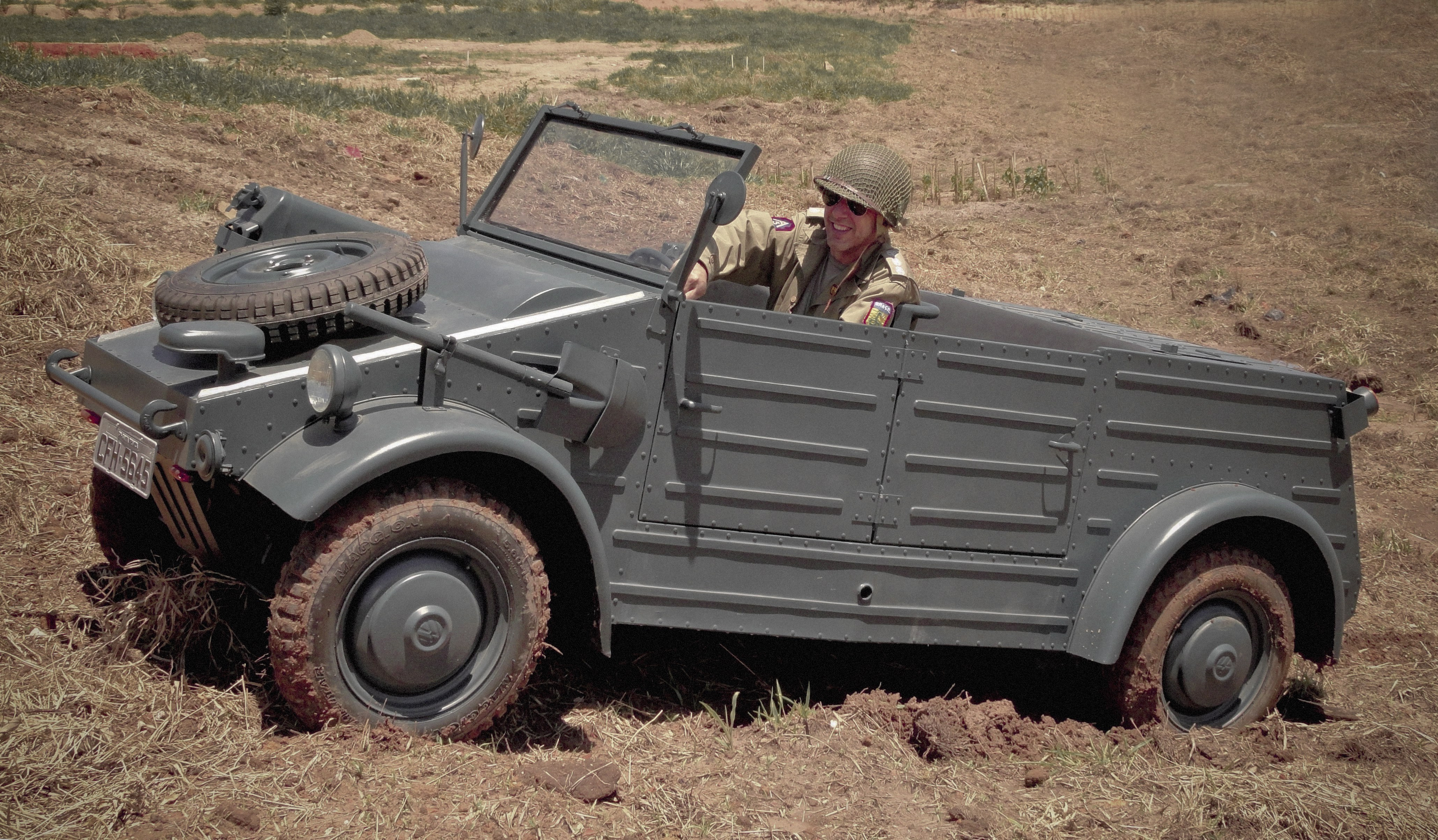 KdF Kübelwagen replica, made in Brazil by Penatti.